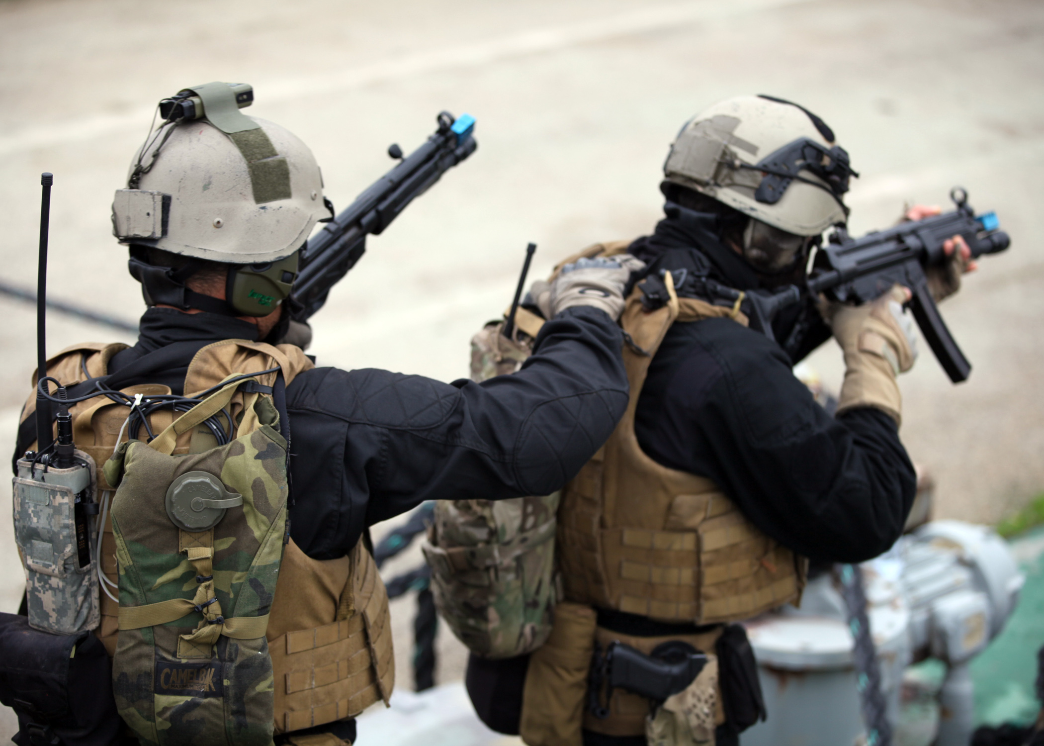 Soldiers in the Portuguese Naval Special Forces DAE move as a buddy team while clearing a ship in Lisbon, Portugal on October 24, 2015 during NATO exercise Trident Juncture 15.